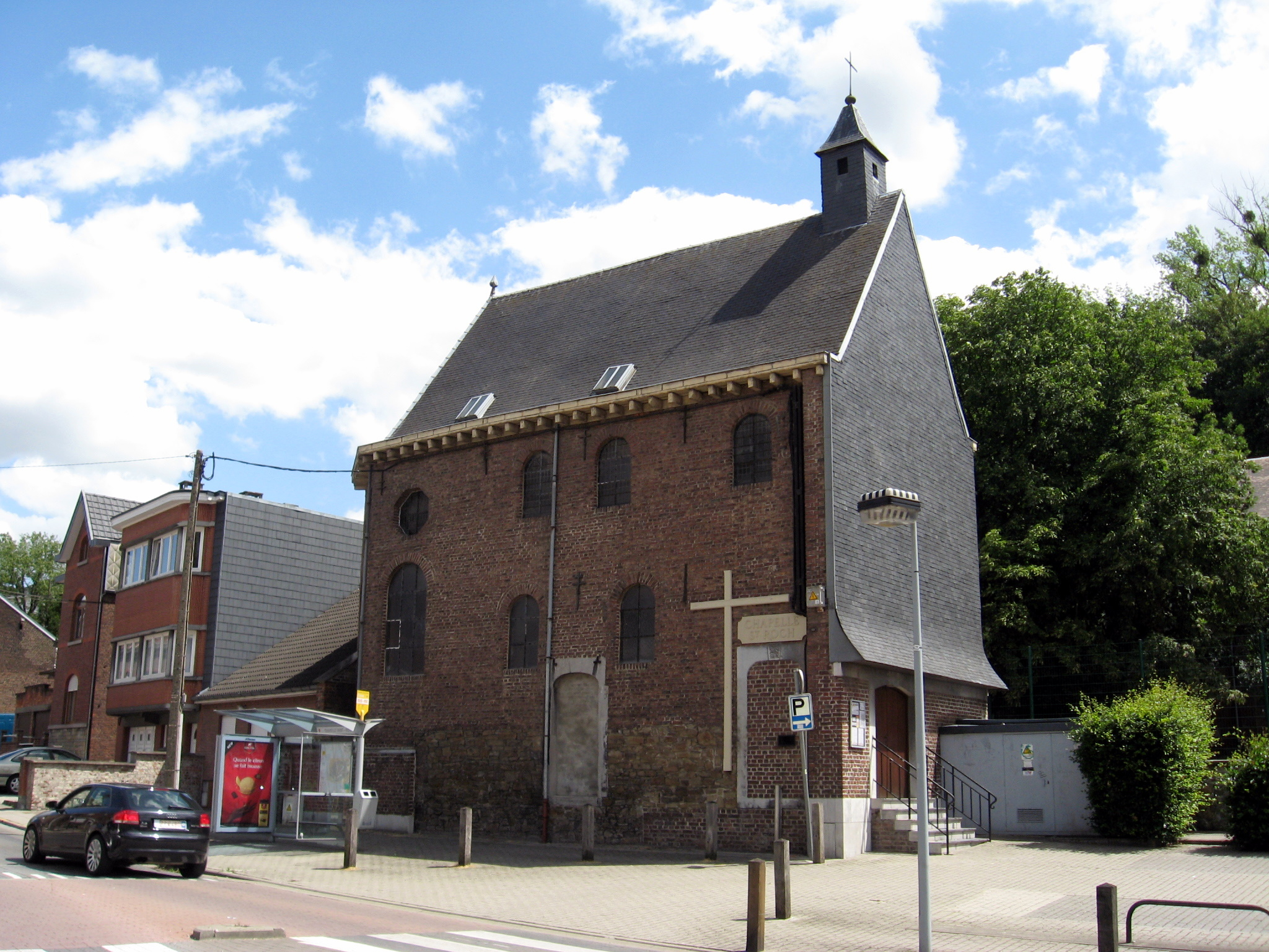 Church of Saint Roch in Jupille-sur-Meuse, Liège, Liège, Belgium